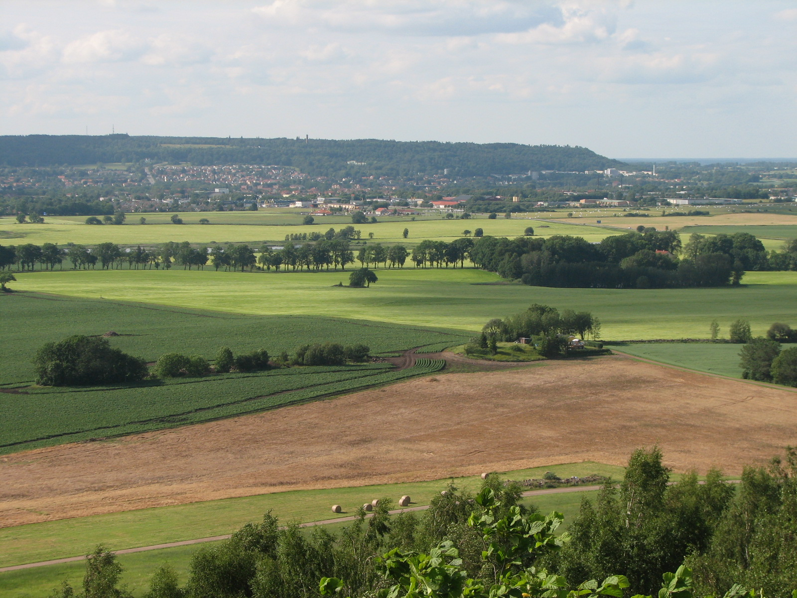 Mösseberg and the city of Falköping, Sweden seen from Ålleberg.